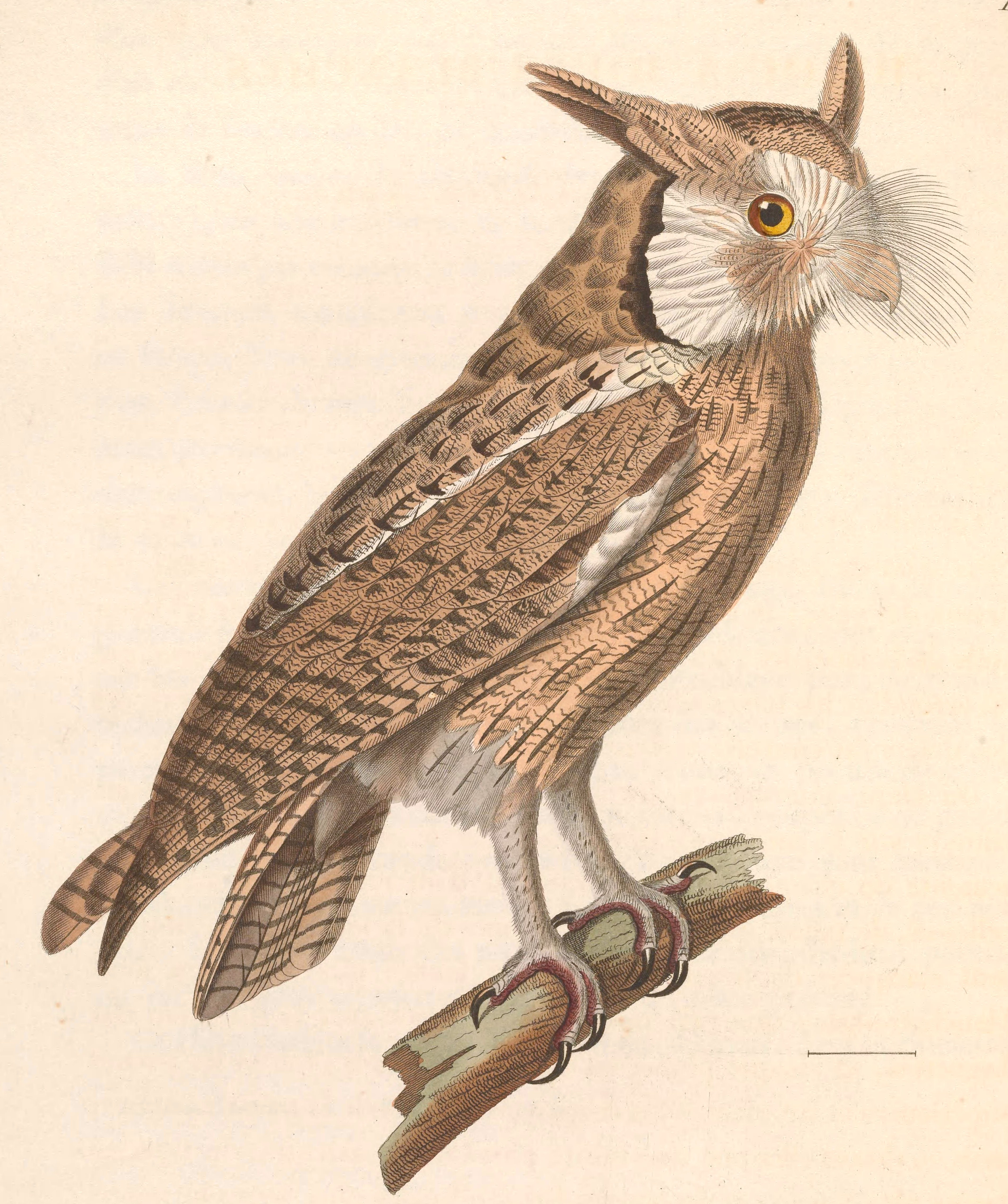 « Strix leucotis » = Ptilopsis leucotis (Northern White-faced Owl)